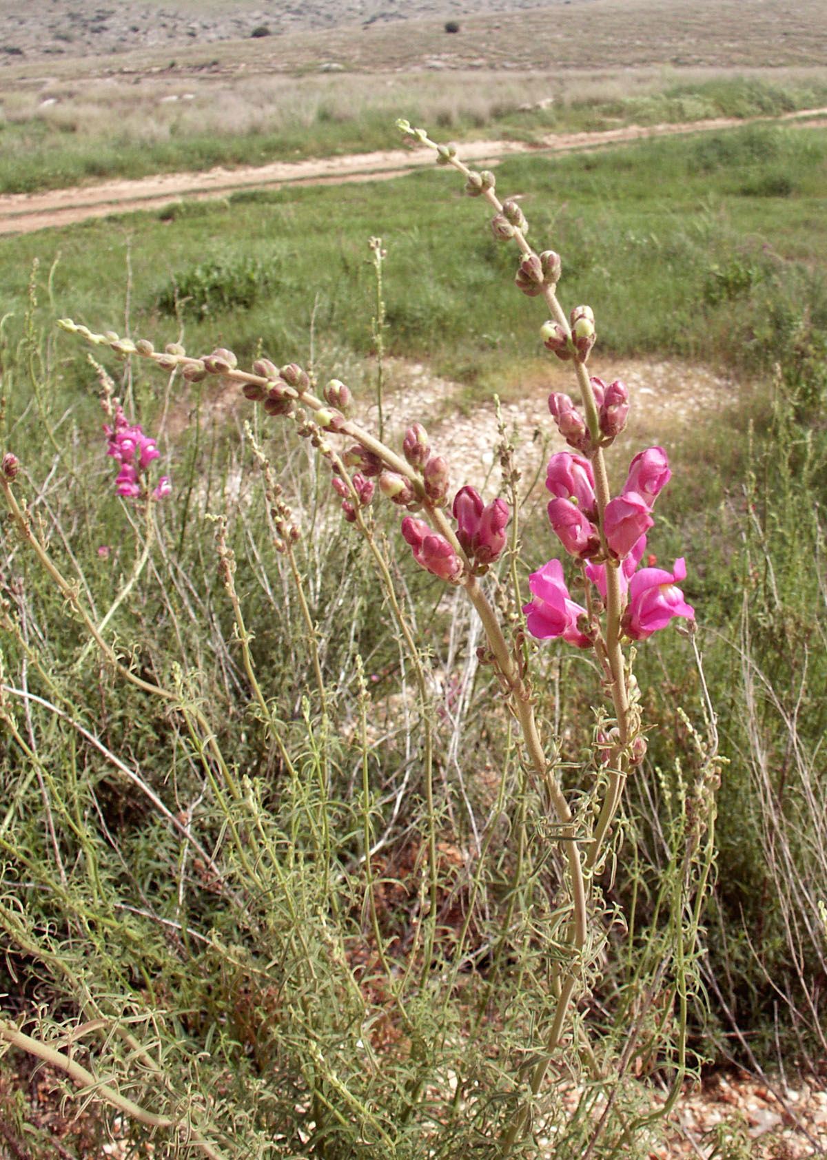 A large perranial snapdragon Antirrhinum majus. Photo taken near Rosh Haayin, Israel.